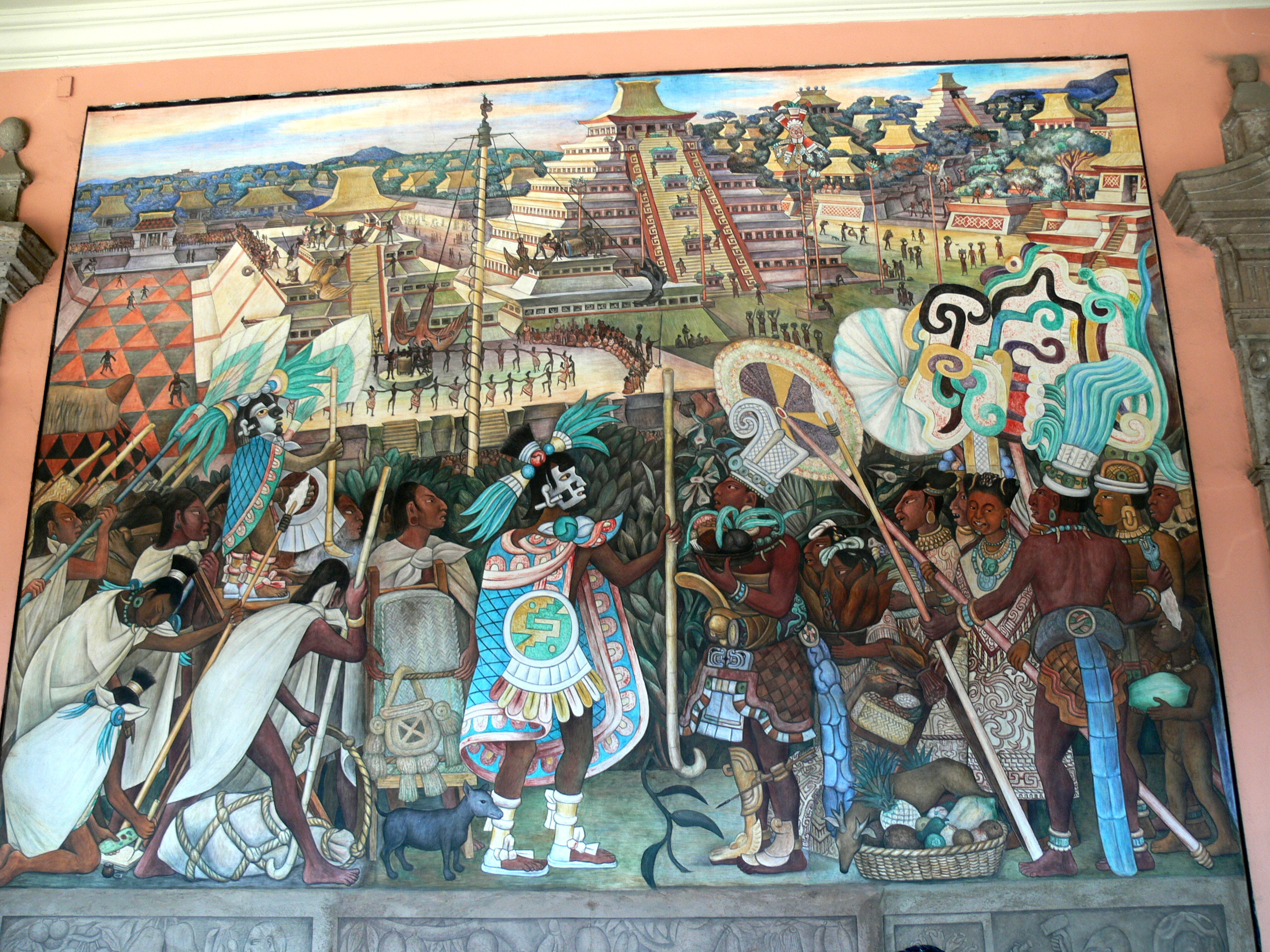 Mexico City - Palacio Nacional. Mural by Diego Rivera showing the life in Aztec times e.g. religious life in Tenochtitlan.